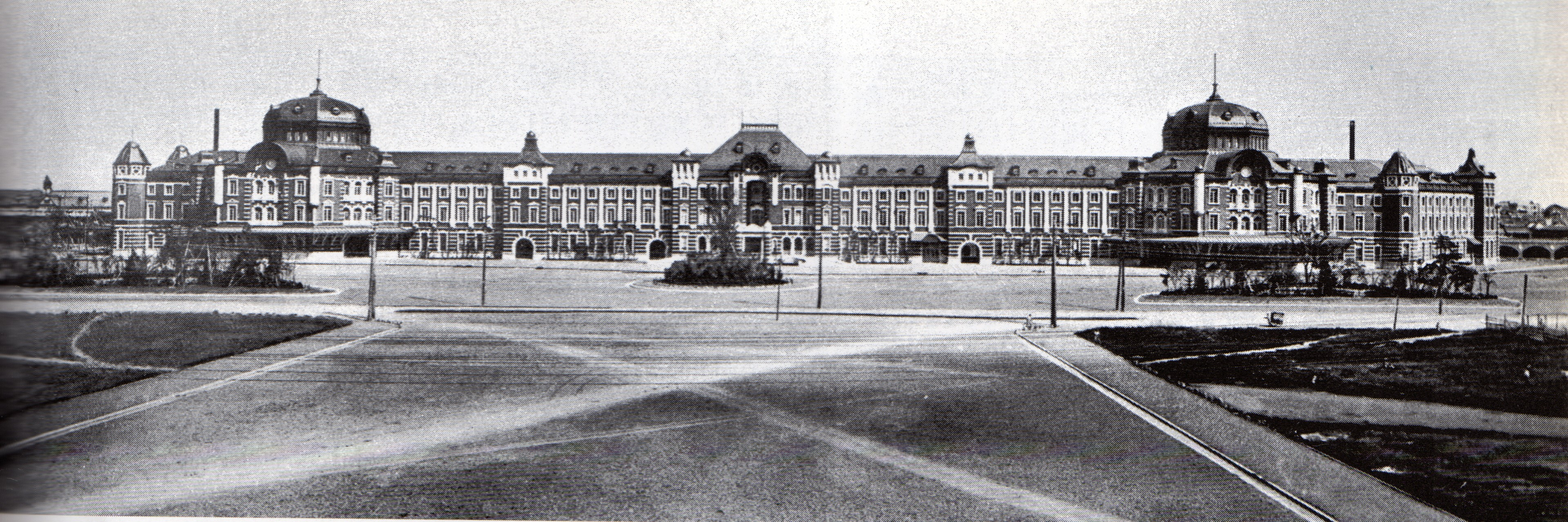 Tokyo Station (original Marunouchi building), at its completion in 1914.